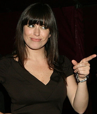 Eve Myles at the BAFTA Cymru award ceremony in April 2007